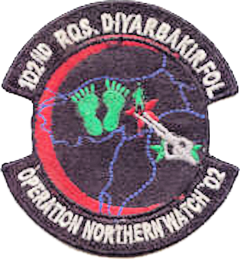 102d Expeditionary Rescue Squadron ONW patch